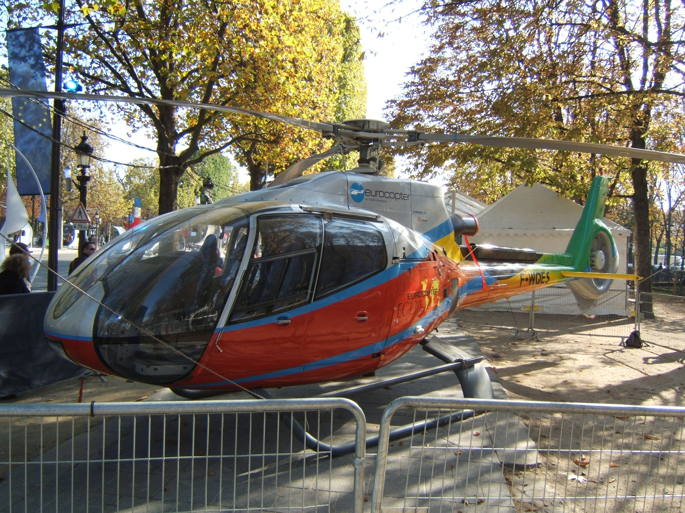 Seen here in Paris in october 2008.